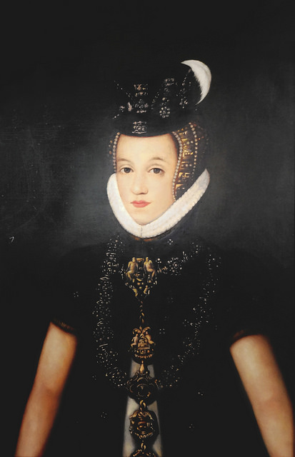 Christine von Hessen, 16 century, Schloss Reinbek